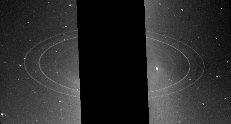 This pair of Voyager 2 images (FDS 11446.21 and 11448.10), two 591-s exposures obtained through the clear filter of the wide angle camera, show the full ring system with the highest sensitivity. Visible in this figure are the bright, narrow N53 and N63 rings, the diffuse N42 ring, and (faintly) the plateau outside of the N53 ring (with its slight brightening near 57,500 km). The original NASA image has been cropped.